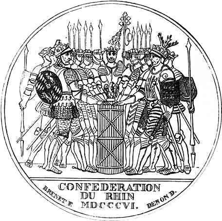 Commemorative Medal of the Rhine Confederation.